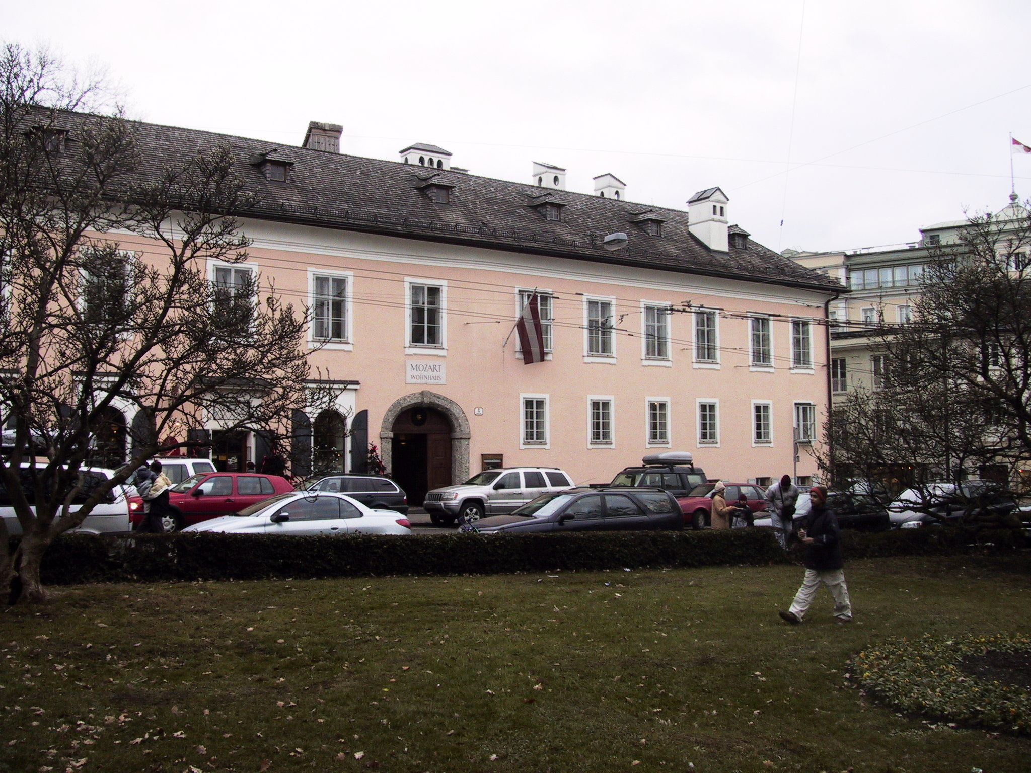 Tanzmeisterhaus in Salzburg, Home of the Mozart family